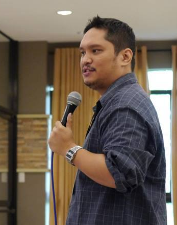 Picture of Filipino blogger AJ Perez giving a talk to students